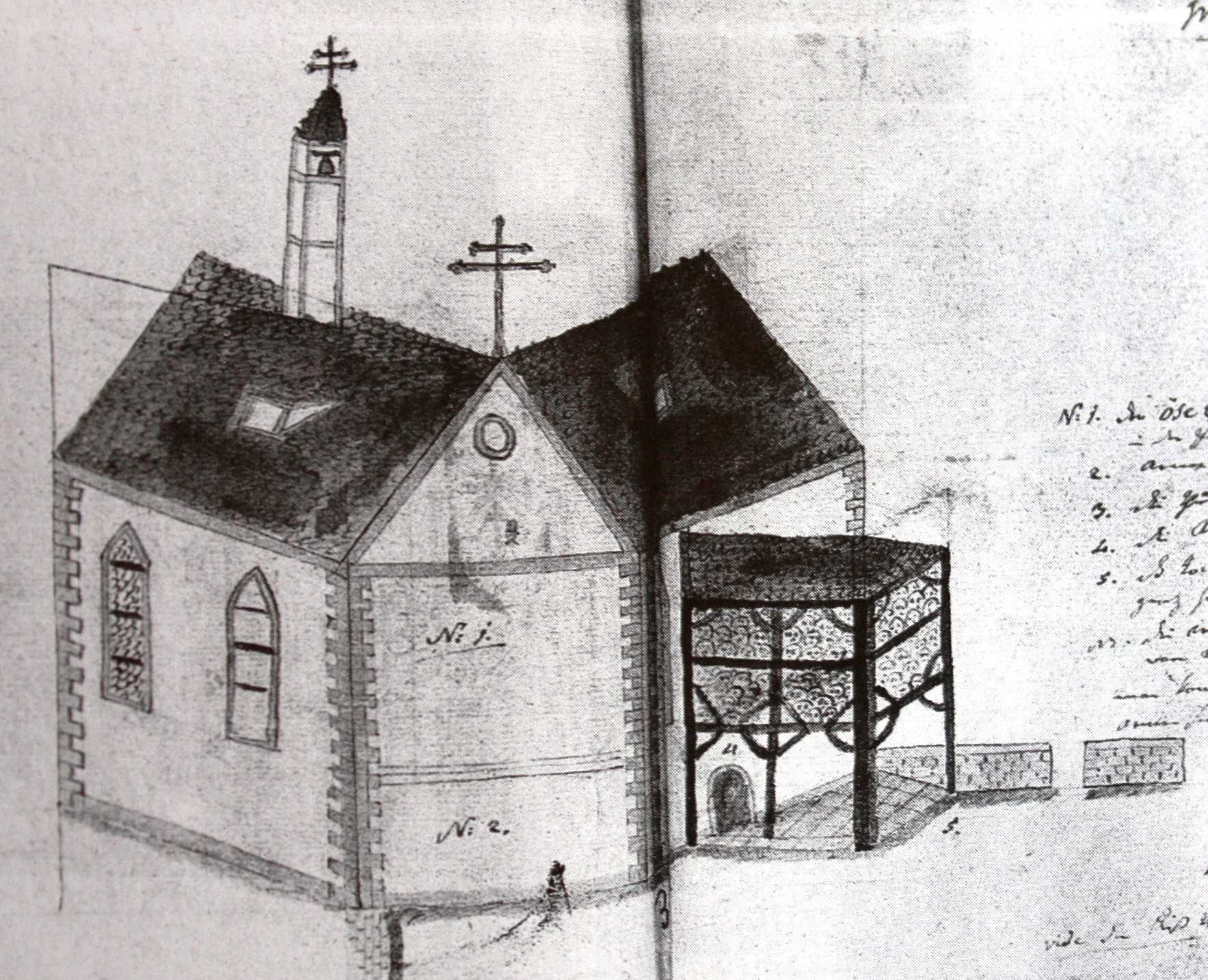 St. Michael at the Minister of Schwaebisch Gmuend, Dominikus Debler